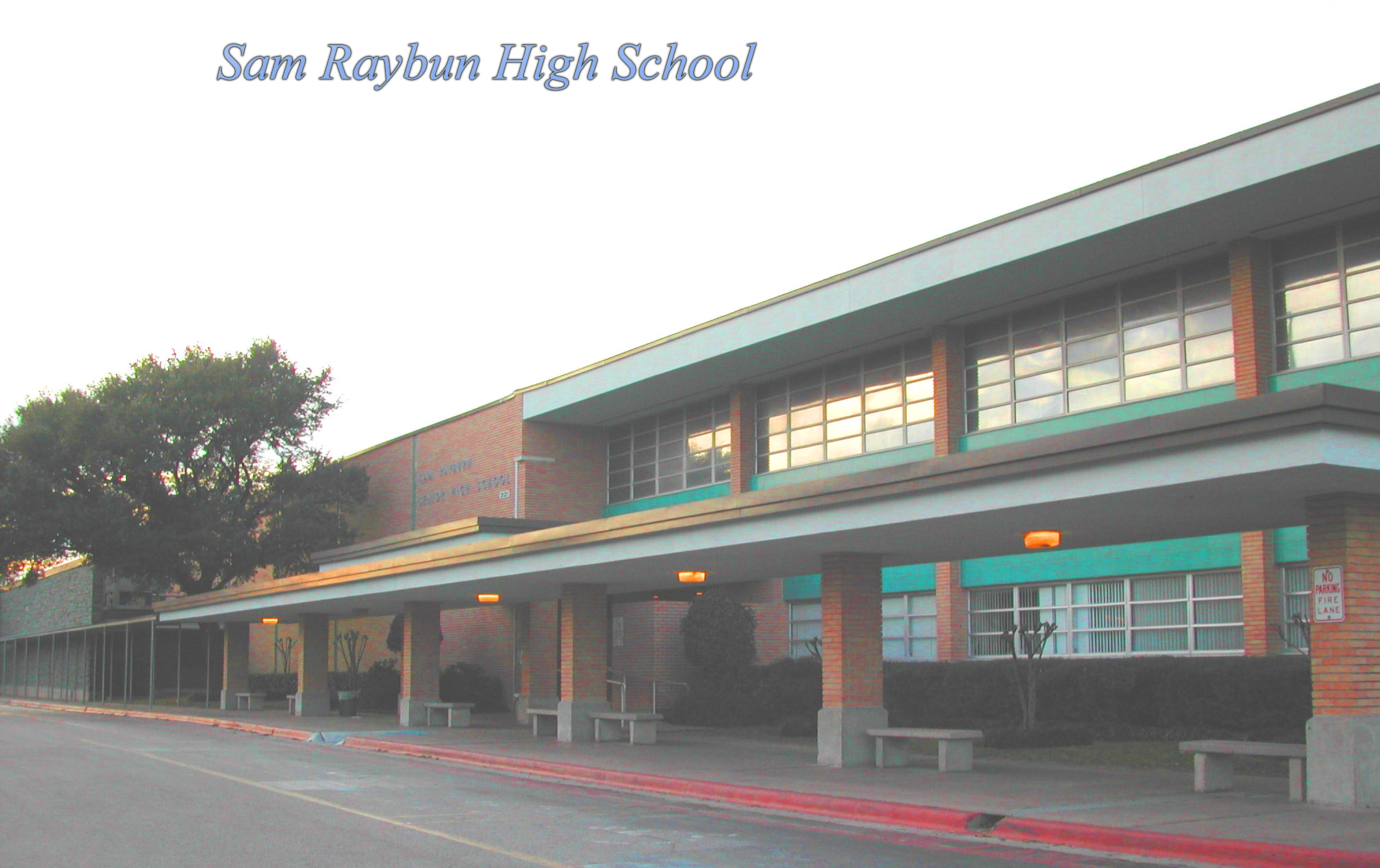 Sam Rayburn High Schol